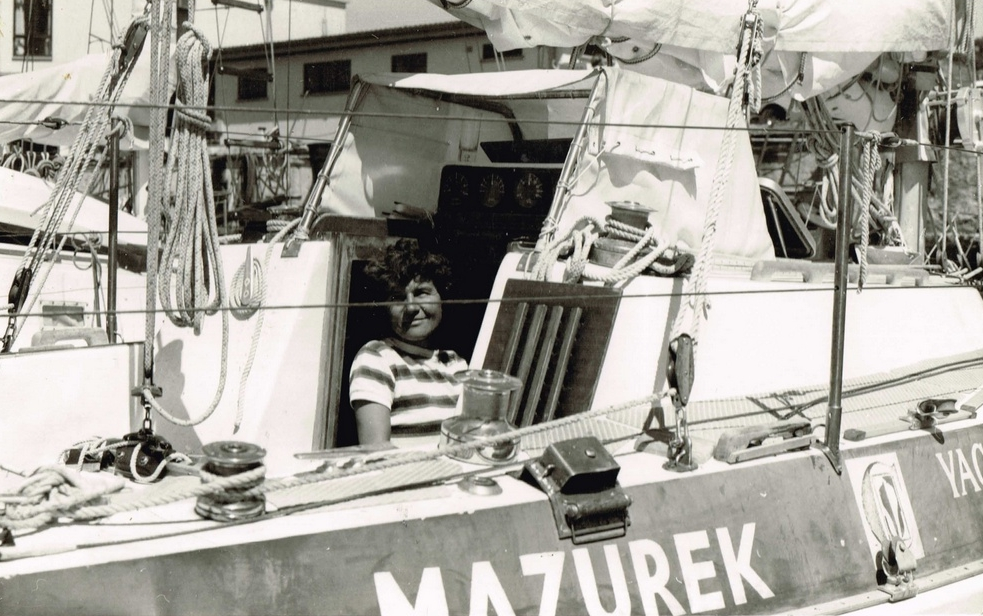 Krystyna Chojnowska-Liskiewicz na jachcie „Mazurek”, na którym jako pierwsza kobieta opłynęła samotnie świat.